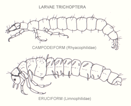 Trichoptera - larvae